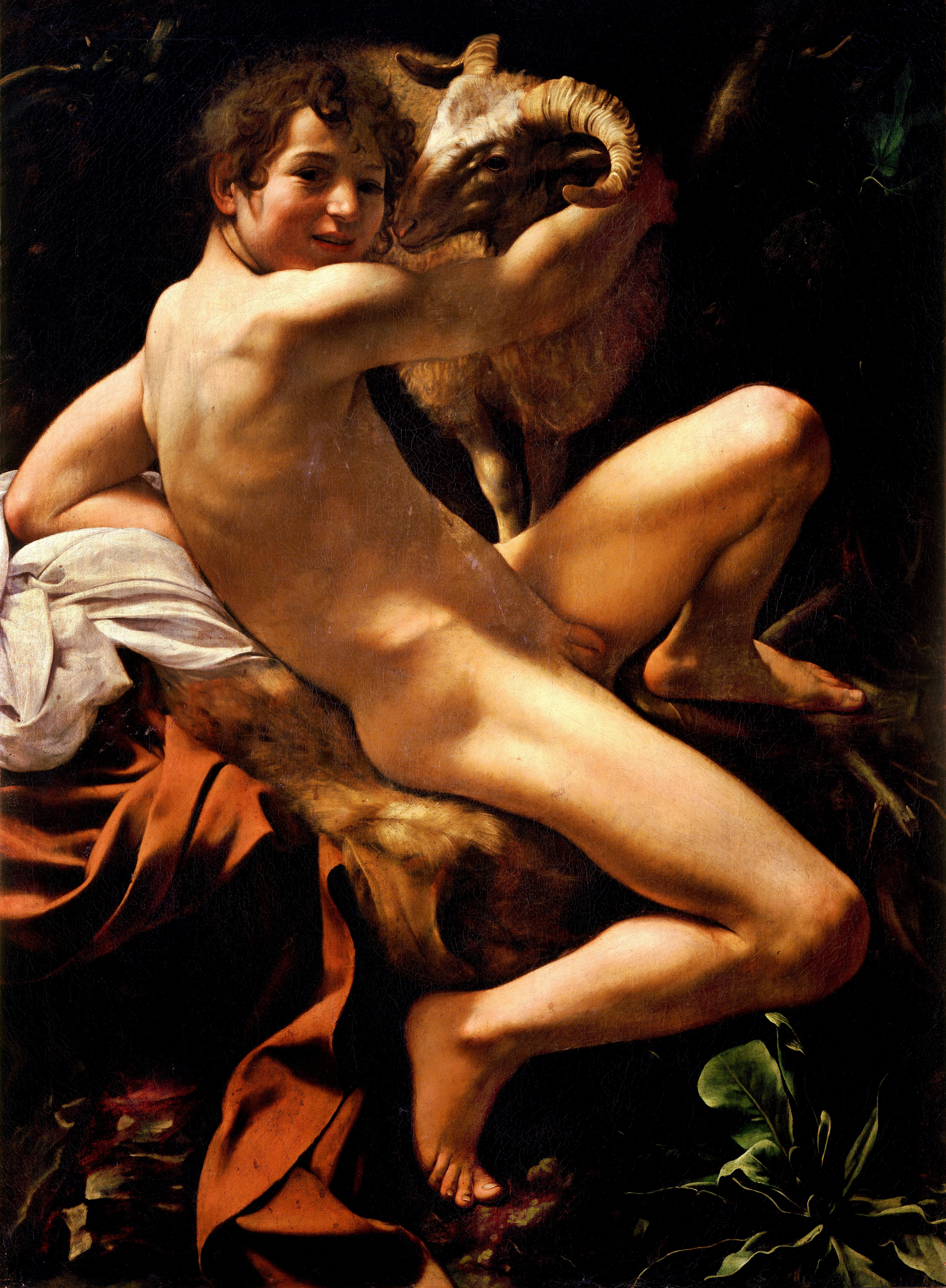 A depiction of John the Baptist, the cousin of Jesus whose calling was to prepare the way for the coming of the Messiah. The painting is also known as Youth with a Ram, and there is another version in the Doria Pamphilj Gallery in Rome.